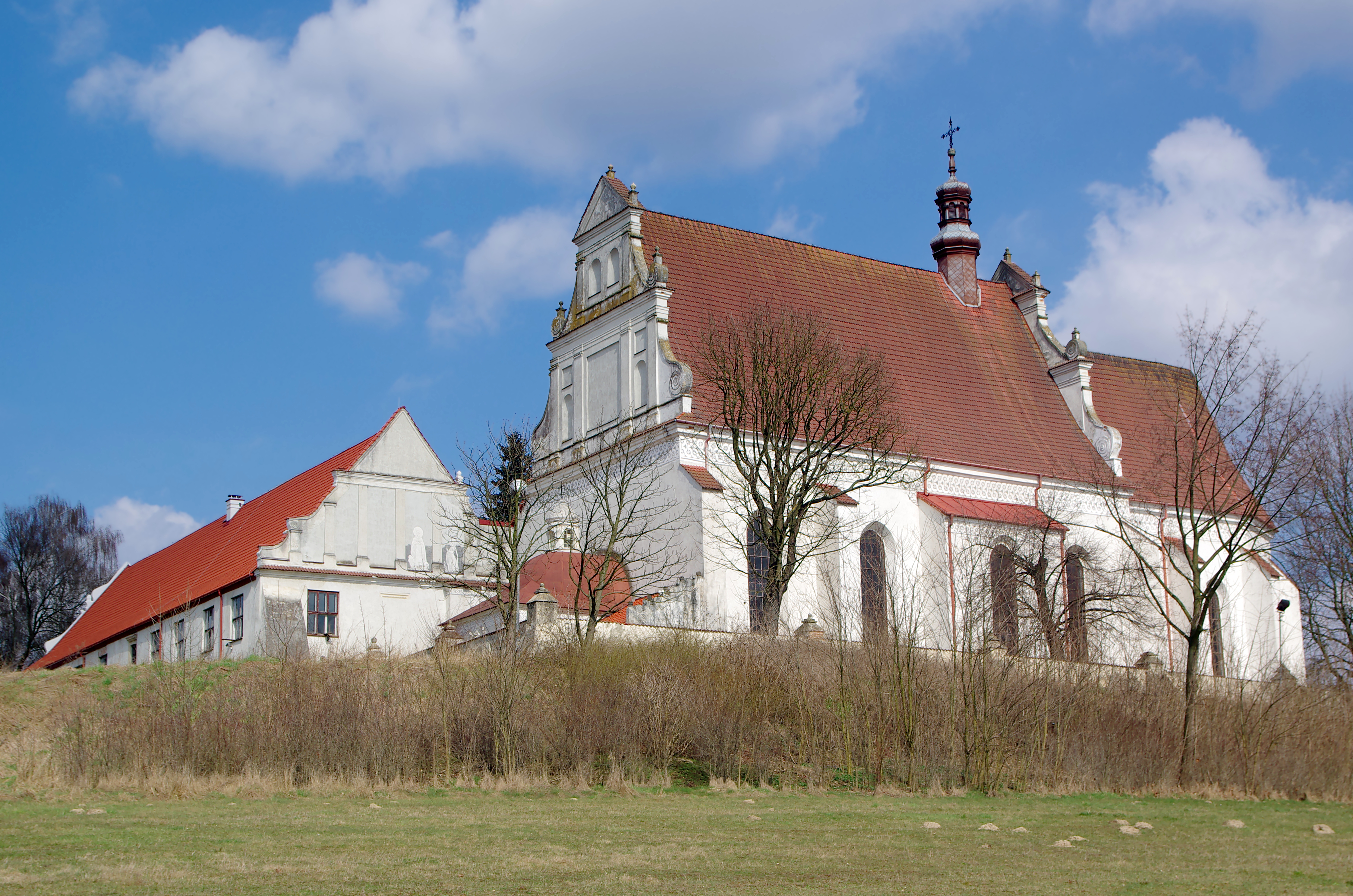 Saint Hyacinth church in Klimontów